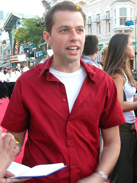 Jon Cryer at the premiere of Pirates of the Caribbean: The Curse of the Black Pearl at Disneyland. (Location appears to be Main Street U.S.A., near Carnation Cafe, north of Crystal Arcade.)